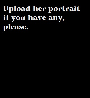 No image owned right now.